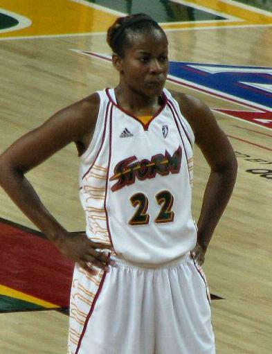 Sheryl Swoopes of the Seattle Storm (at time of photo)